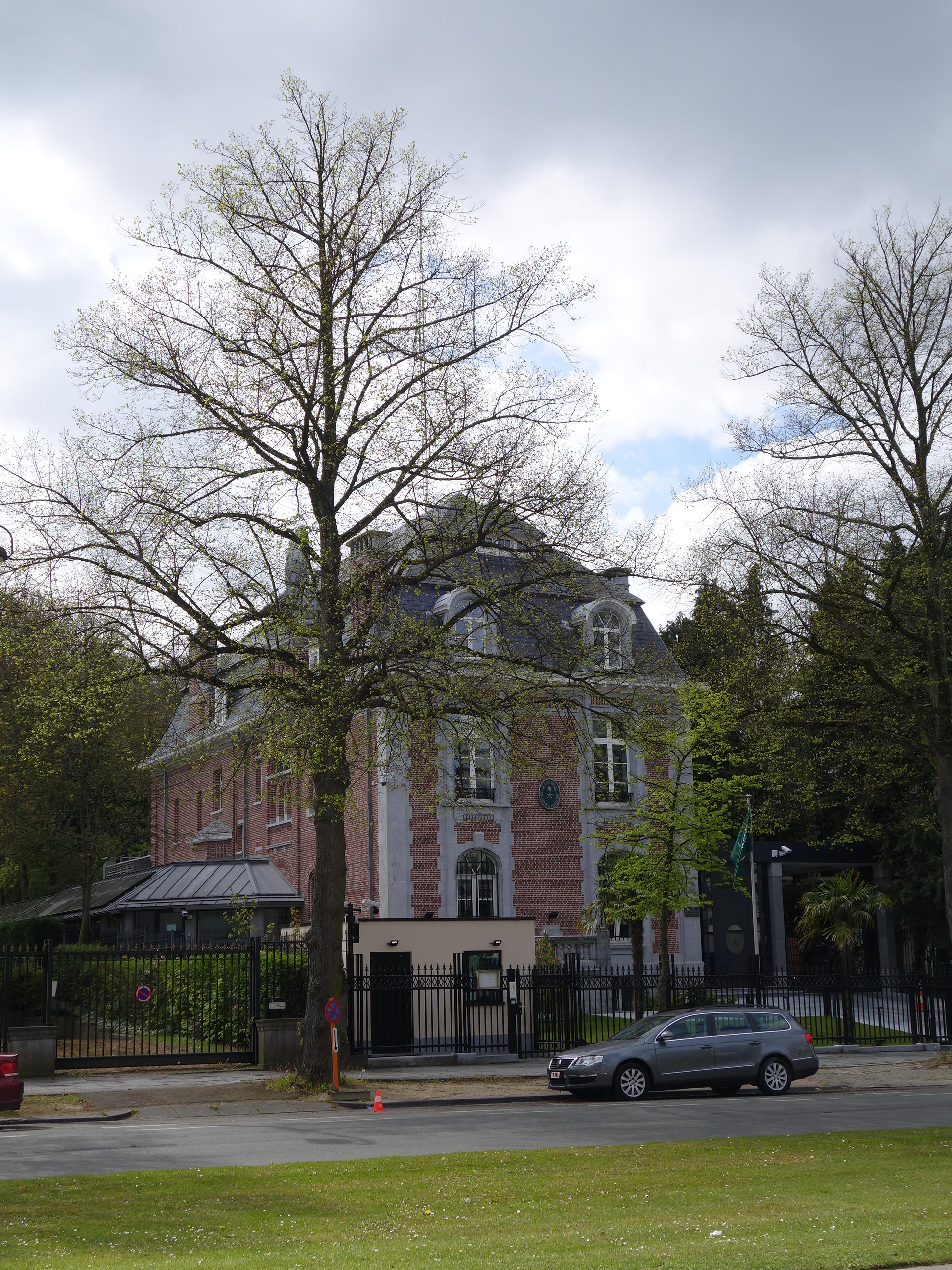 Saudi embassy, Brussels